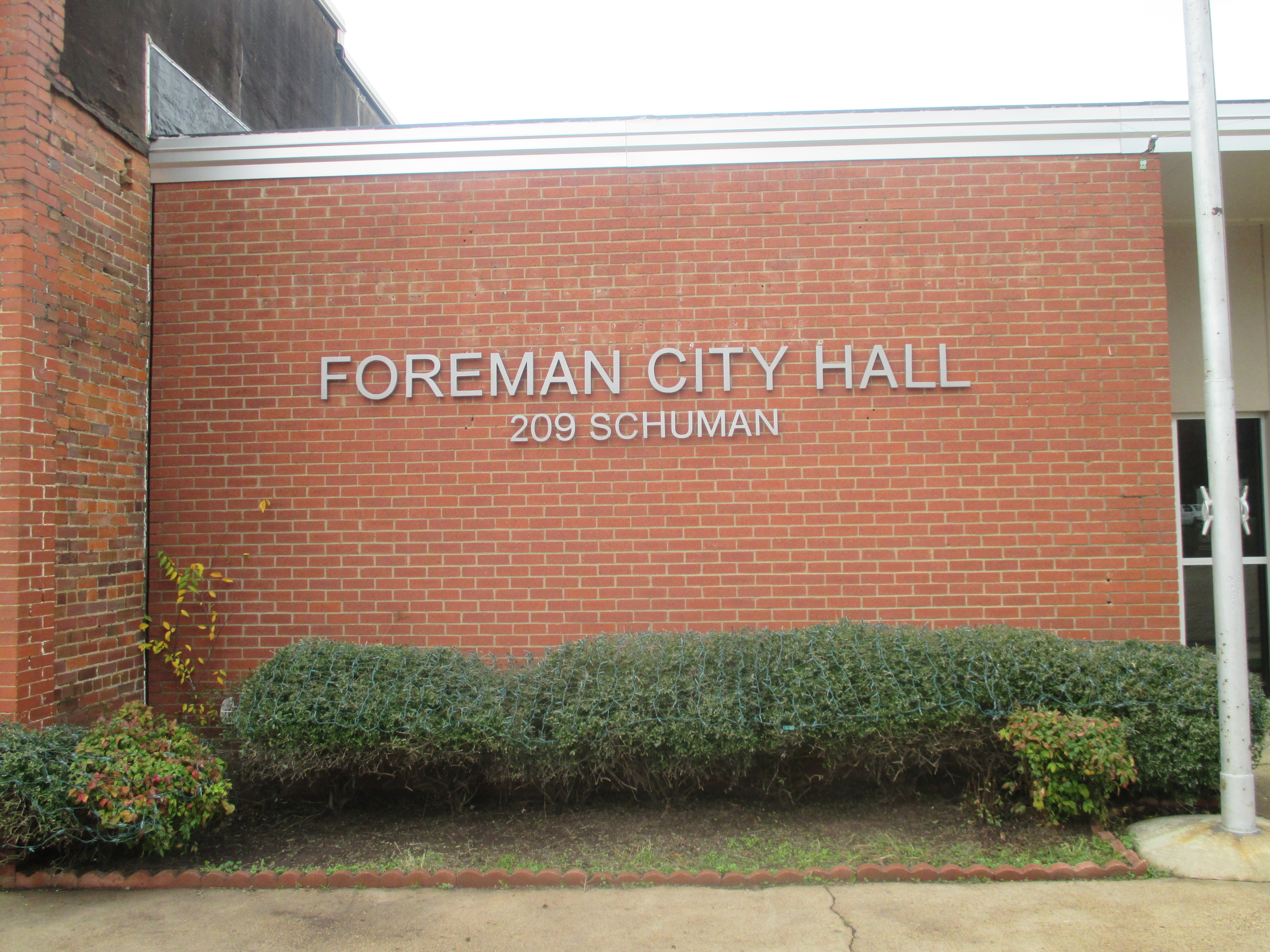 I took photo with Canon camera of City Hall in Foreman, AR